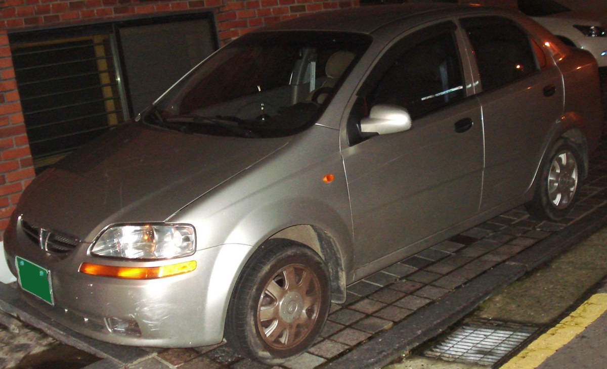 Daewoo Kalos